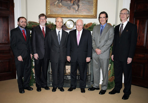 Vice President Dick Cheney meets with the 2006 U.S. Nobel Laureates, Thursday, November 30, 2006 in the Roosevelt Room at the White House. From left to right are Dr. Andrew Fire, 2006 Nobel Prize in Medicine; Dr. George F. Smoot, 2006 Nobel Prize in Physics; Dr. Roger D. Kornberg, 2006 Nobel Prize in Chemistry; Dr. Craig Mello, 2006 Nobel Prize in Medicine; Dr. John C. Mather, 2006 Nobel Prize in Physics. This year marks the first time in 30 years that the U.S. has exclusively won four of the six Nobel prizes, the last time being 1976 when the U.S. won awards in science, economics and literature. White House photo by David Bohrer